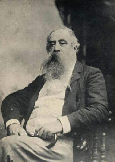 Mose Bianchi